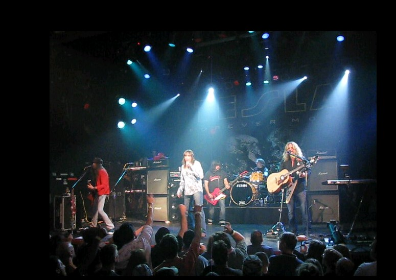 Tesla Rocks "Forever More" at the Chance in Poughkeepsie, NY. April 27, 2009.